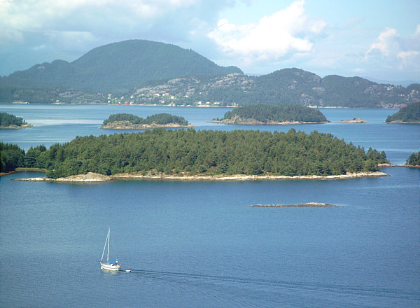 Islands around Halsnoy